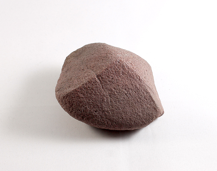 Ventifact (wind-abraded rock) from the Ice-pushed ridge near Huizen, the Netherlands. Photo and collection M. Langbroek, VU University Amsterdam.